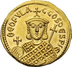 Theophylactus. 811-813. Solidus (Gold, 4.40 g 6). ΘEOFVLACTOS DESP’E Beardless bust of Theophylactus facing, wearing loros and crown with cross, and holding a globus cruciger in his right hand and a cross tipped scepter in his left. DOC 1b. SB 1615.